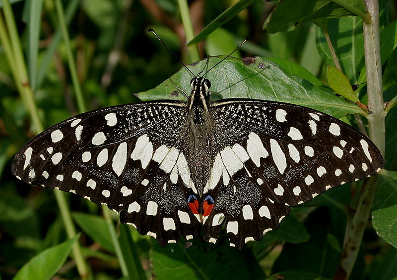 Lime Butterfly Papilio demoleus in Hyderabad , India.